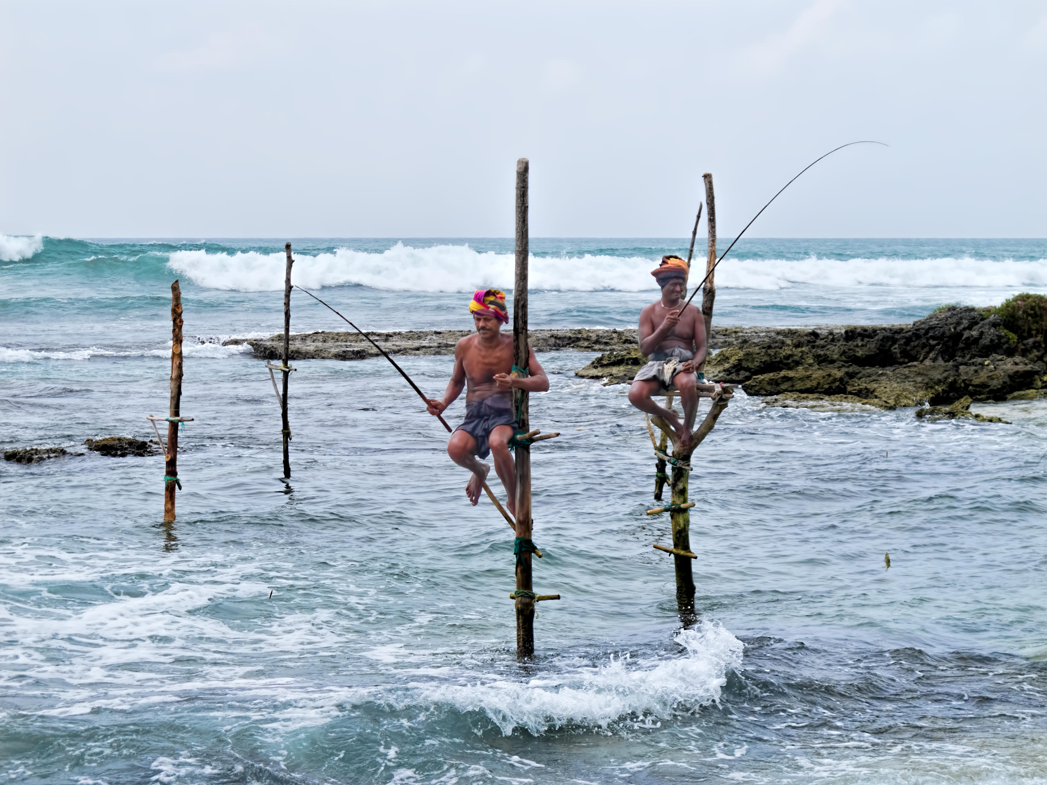 Two stilt fishermen (or more likely actors) pose on the stilt poles that are used as perches to fish from. The practice supposedly started during World War II. Stilt positions are passed down from father to son (or rented to actors). The 2004 tsunami devastated the shoreline and reduced the catch, making stilt fishing less productive than tourism today. On Google Earth: Ahangama 5°59'0.78"N, 80°19'57.44"E